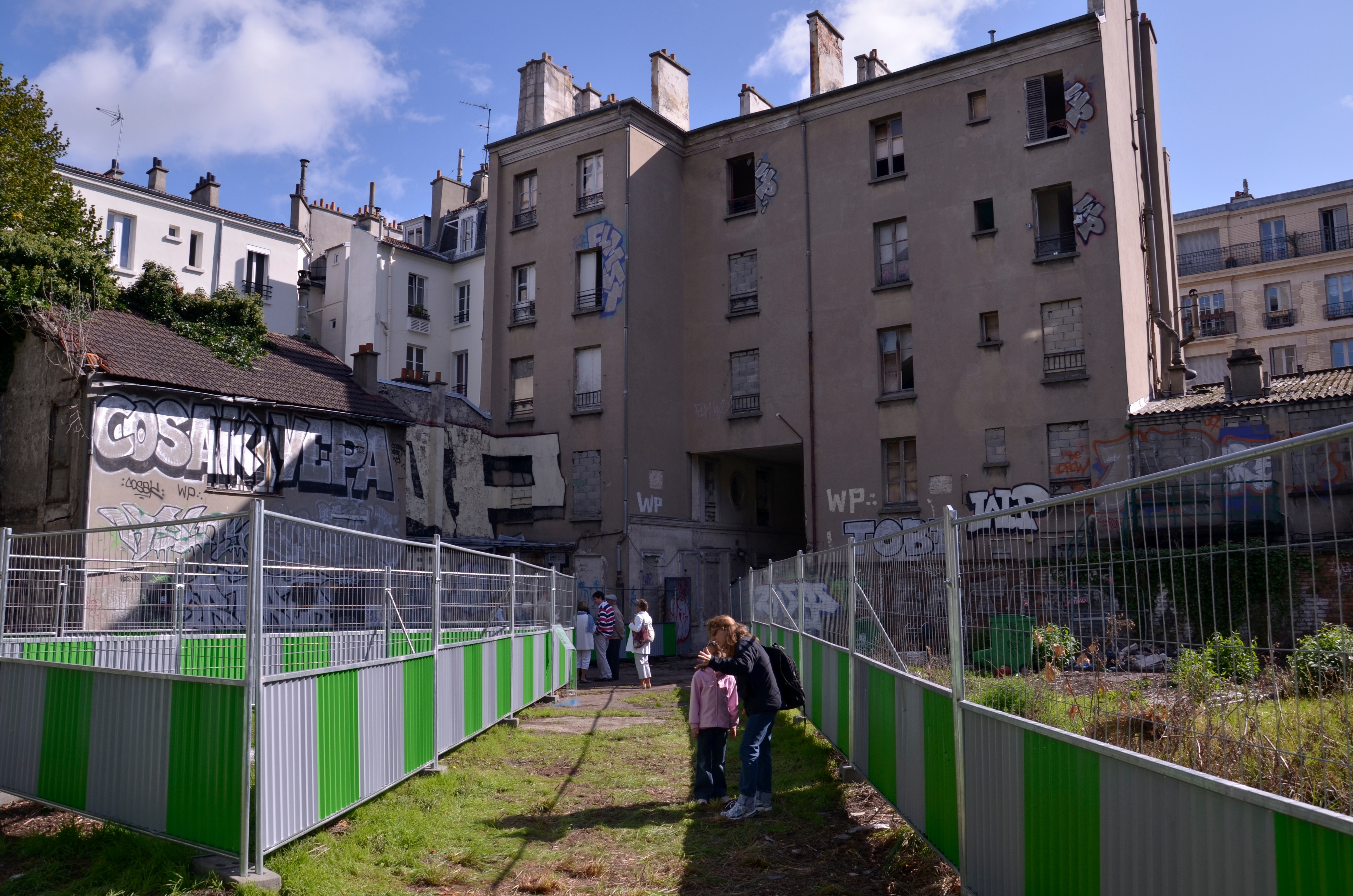 Opened for the European Monument days. There is quite some work to do! This building is en partie classé, en partie inscrit au titre des Monuments Historiques. .